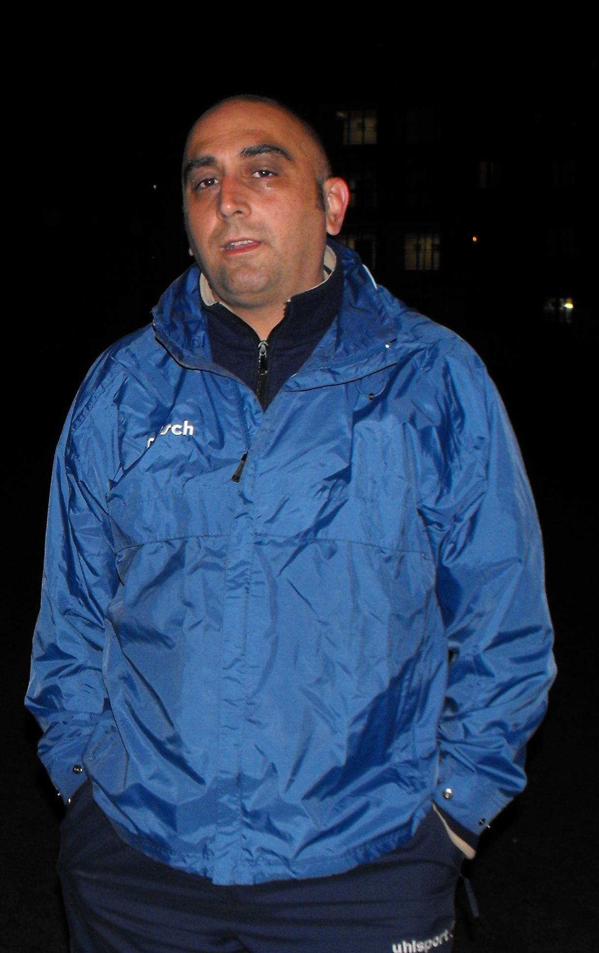 Tomislav Rusev - Bulgarian jurnalist